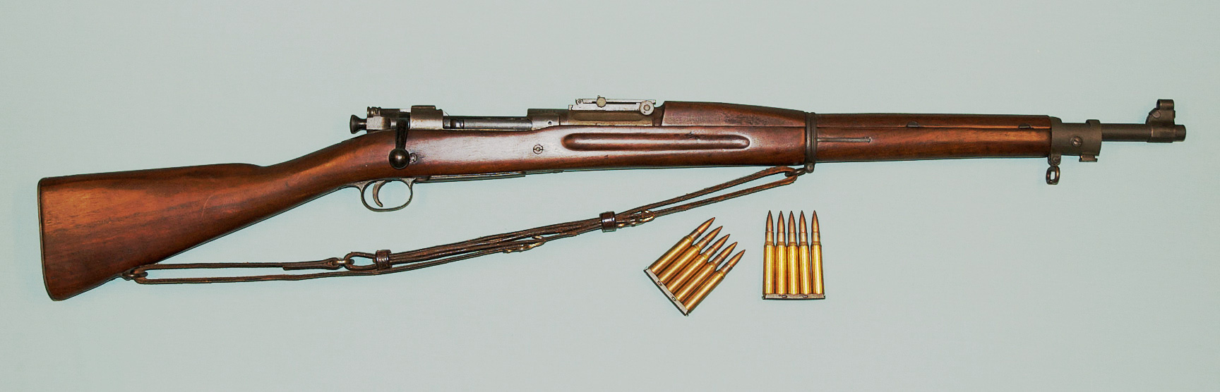 Rock Island Arsenal U.S. Model 1903 Rifle, manufactured in 1906